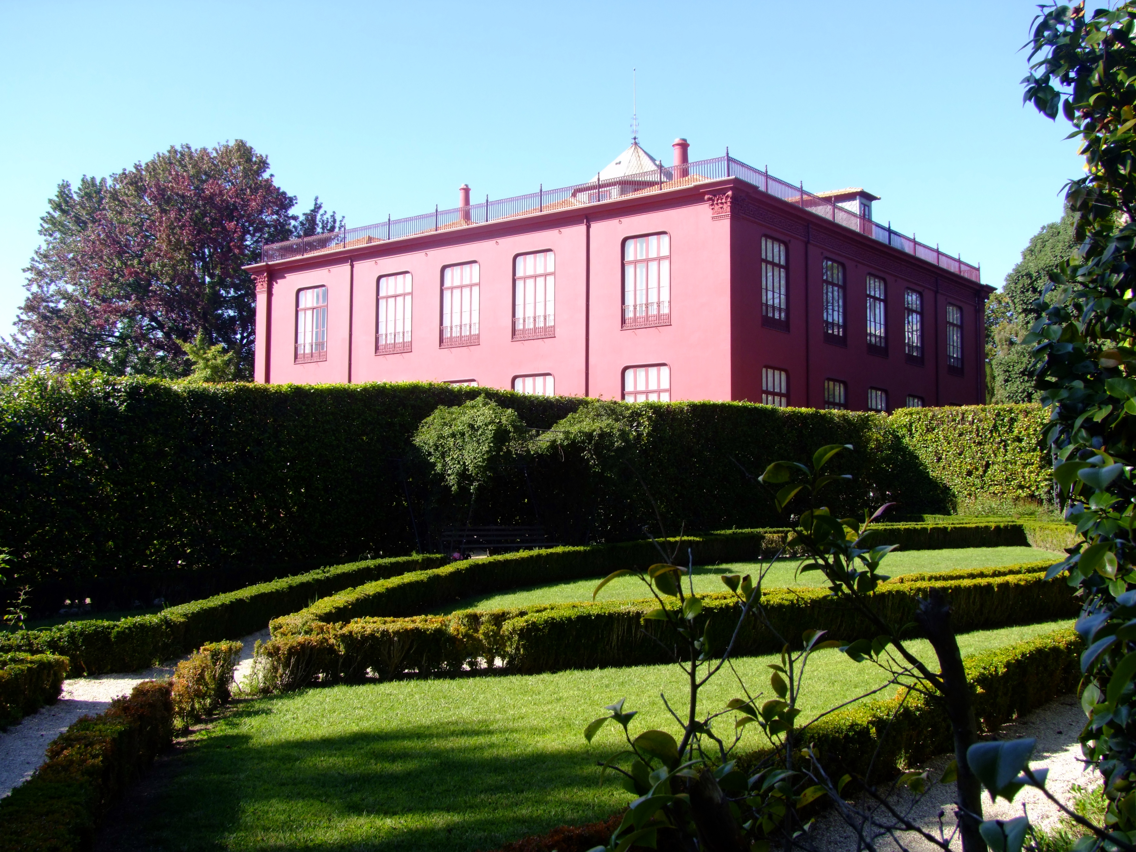 Botanical Garden of Oporto.